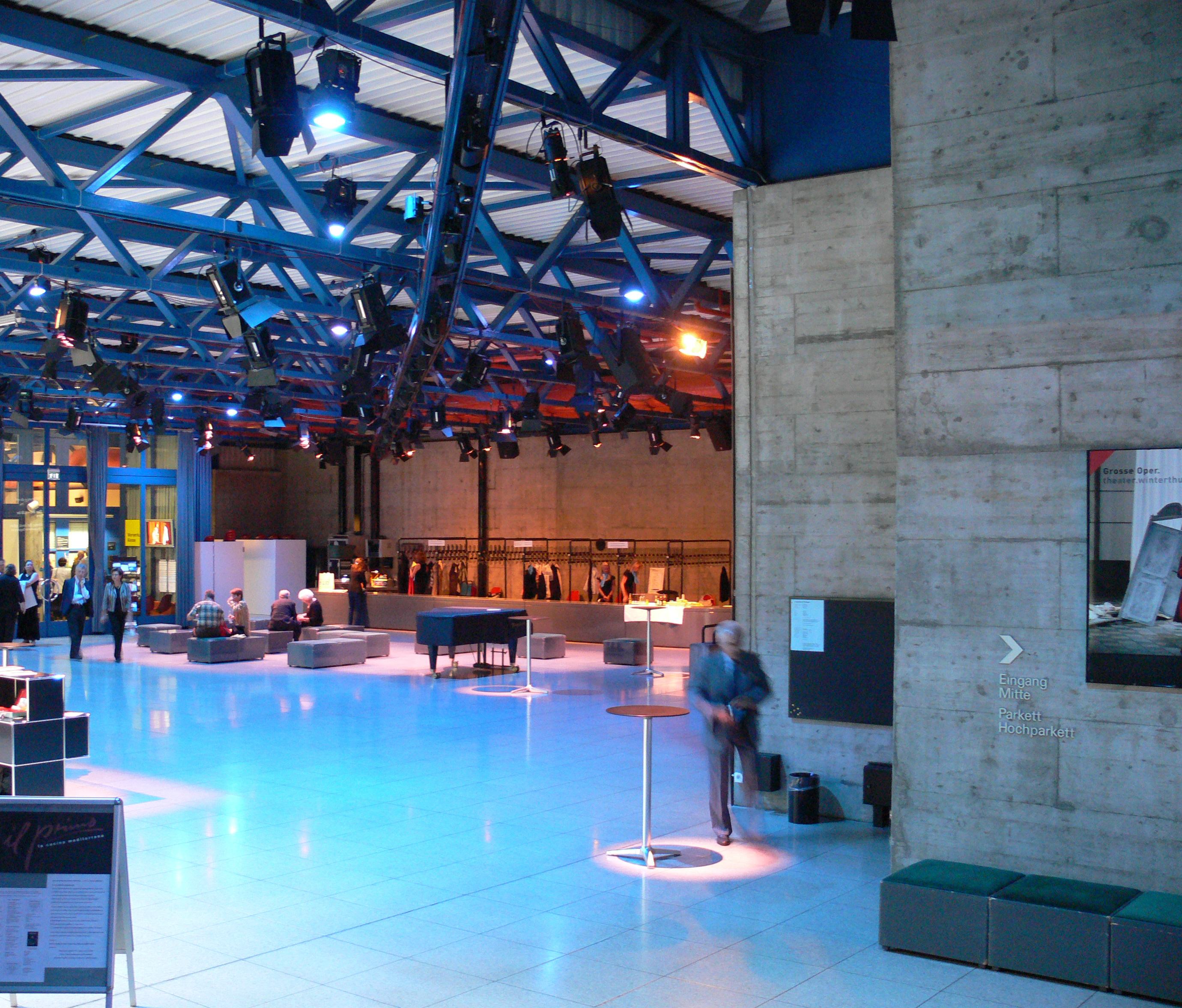 Winterthur Theater Winterthur, Foyer